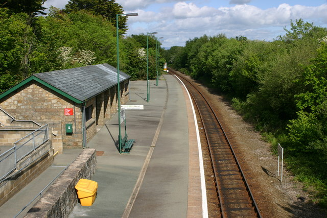 Penychain station.